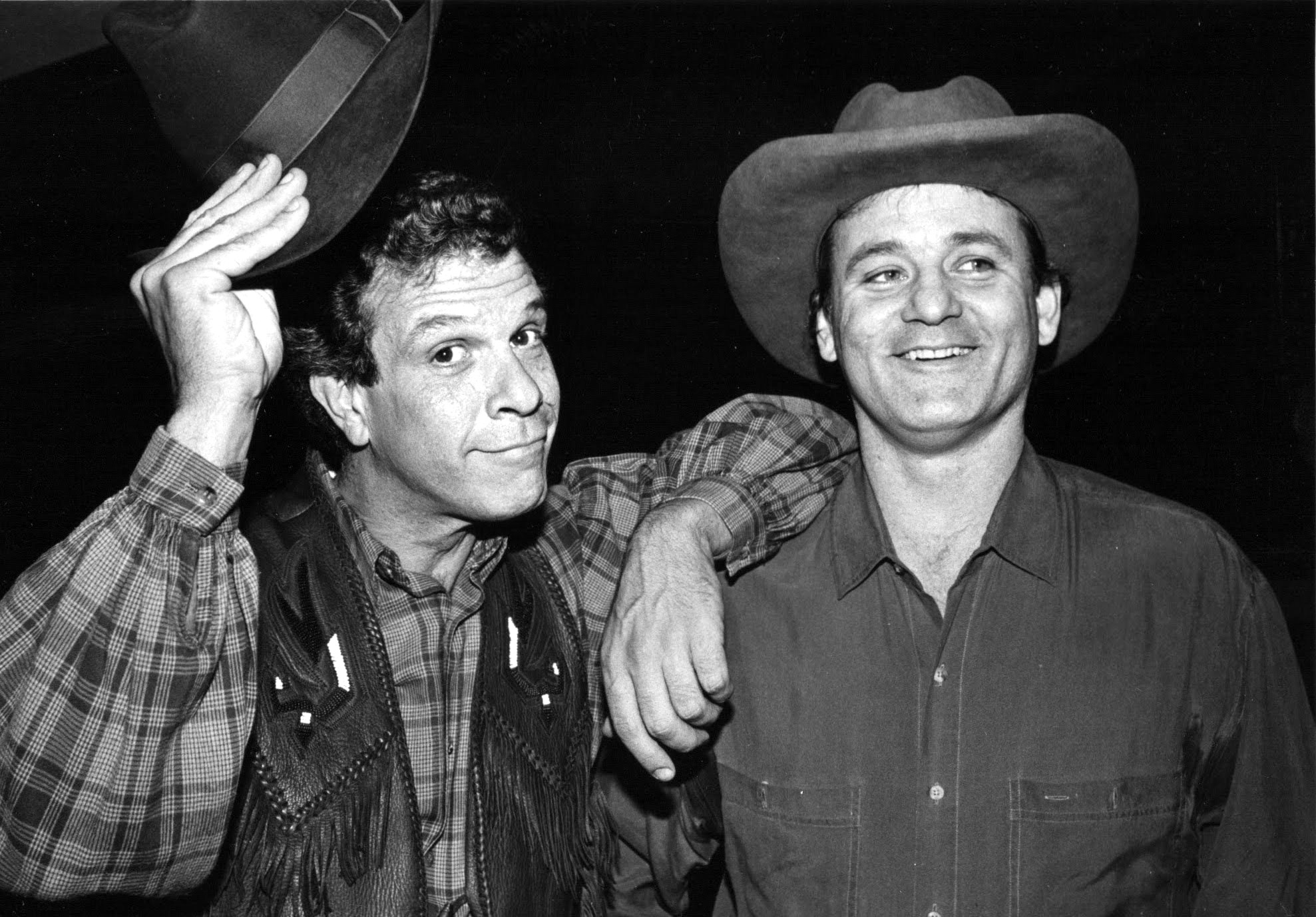 A photo of Paul Binder with Bill Murray at The Big Apple Circus in 1989